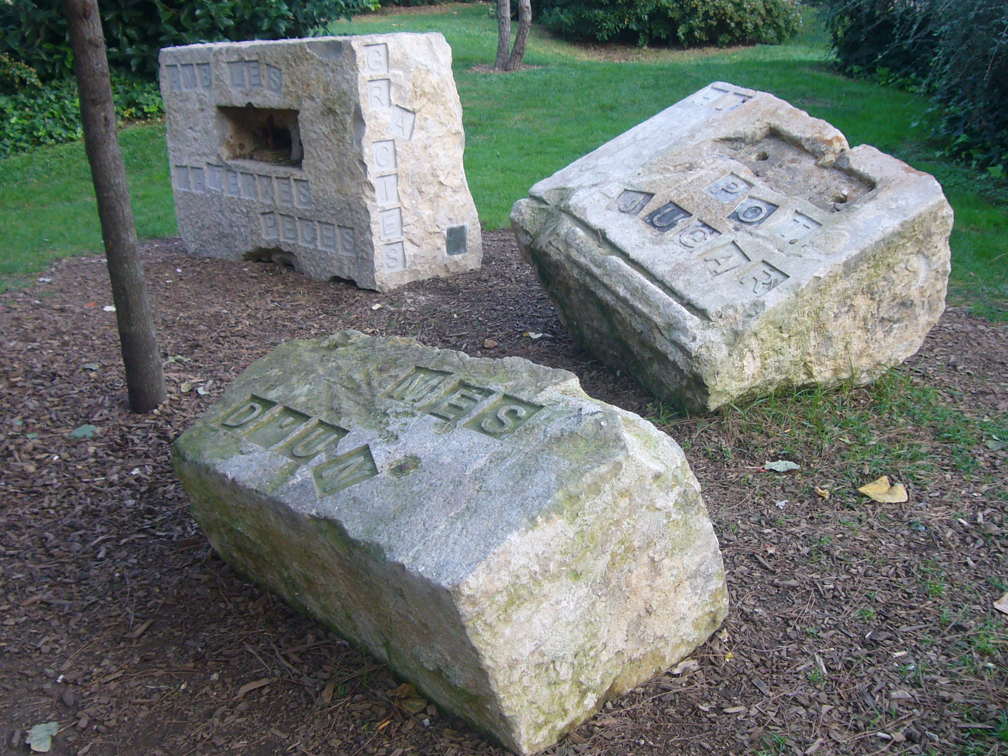 Escultura plaça Sagrada Familia. Hi podem llegir "Amb les mateixes peces hi pot jugar mes d'un. Gracies"